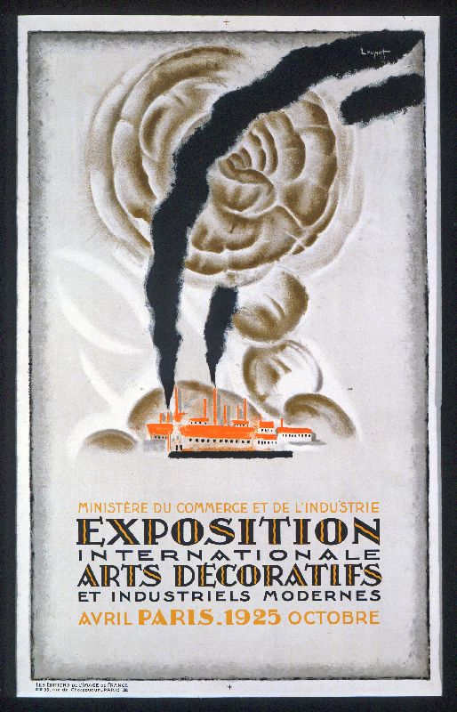 Trade Ministry and Modern Industrialists - Poster of the International Decorative Arts Exhibition 1925. The Wolfsonian–Florida International University, Miami Beach, Florida, The Mitchell Wolfson, Jr. Collection.